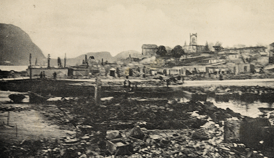 Tittel / Title: Aalesund efter Branden Motiv / Motif: Postkort. Den store bybrannen i Ålesund fant sted natt til 23. januar 1904. Dato / Date: 1904 Fotograf / Photographer: ukjent Utgiver / Publisher: Alb. Gjörtz Sted / Place: Møre og Romsdal, Ålesund Eier / Owner Institution: Nasjonalbiblioteket / National Library of Norway Lenke / Link: Bildesignatur / Image Number: blds_03800